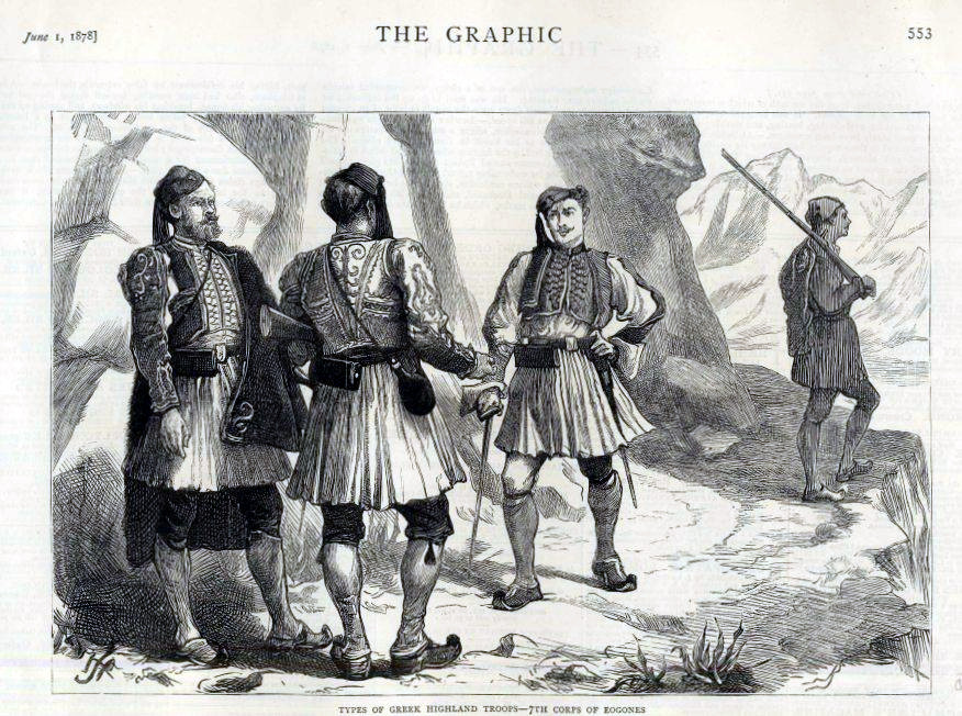 Types of greek highland troops 1878 wearing Fustanella